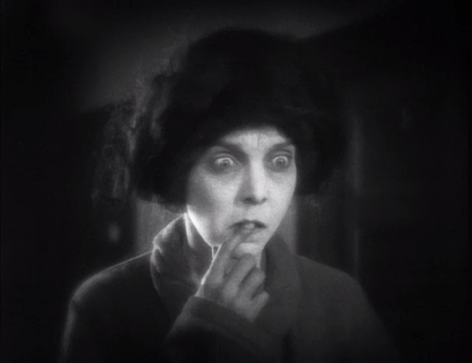 Scenography for the movie Greed (1924); ZaSu Pitts.